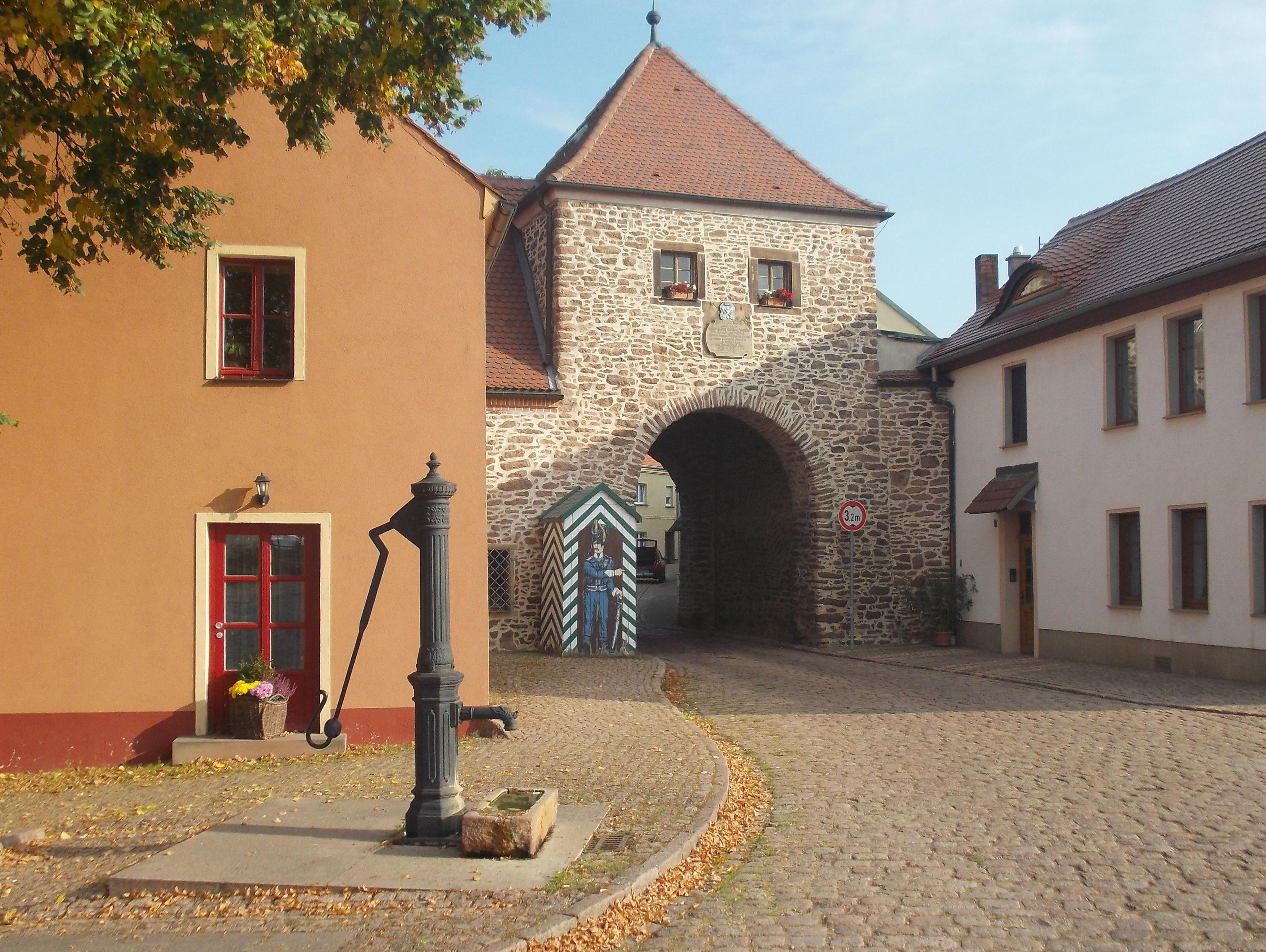 Halle Gate in Löbejün (Wettin-Löbejün, district: Saalekreis, Saxony-Anhalt)